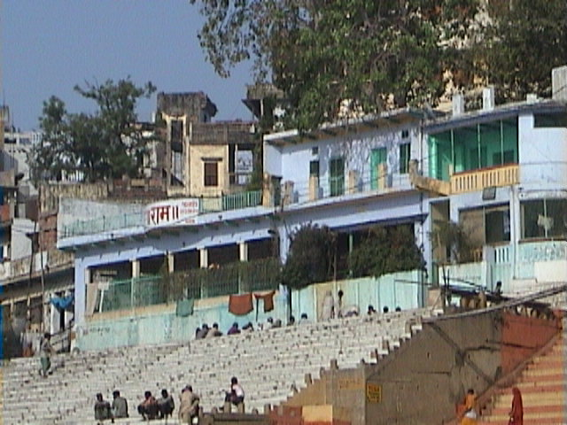 See Varanasi Development Cooperation Handbook/Stories/Responsible Development - Varanasi The Varanasi Heritage Dossier Kautilya Society Play media Vrinda Dar - How we got involved in heritage protection of Varanasi